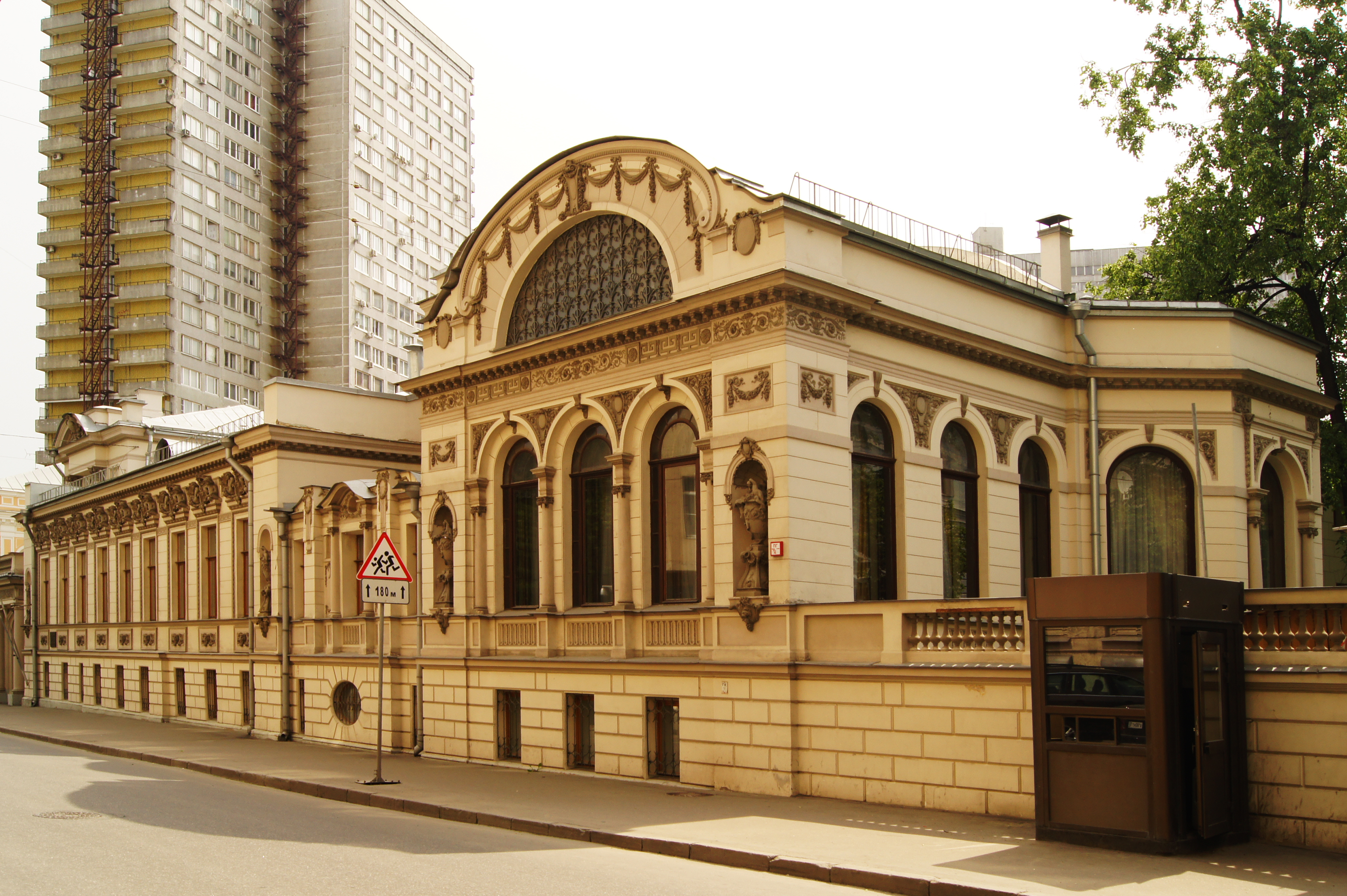 Povarskaya Street Moscow, 9